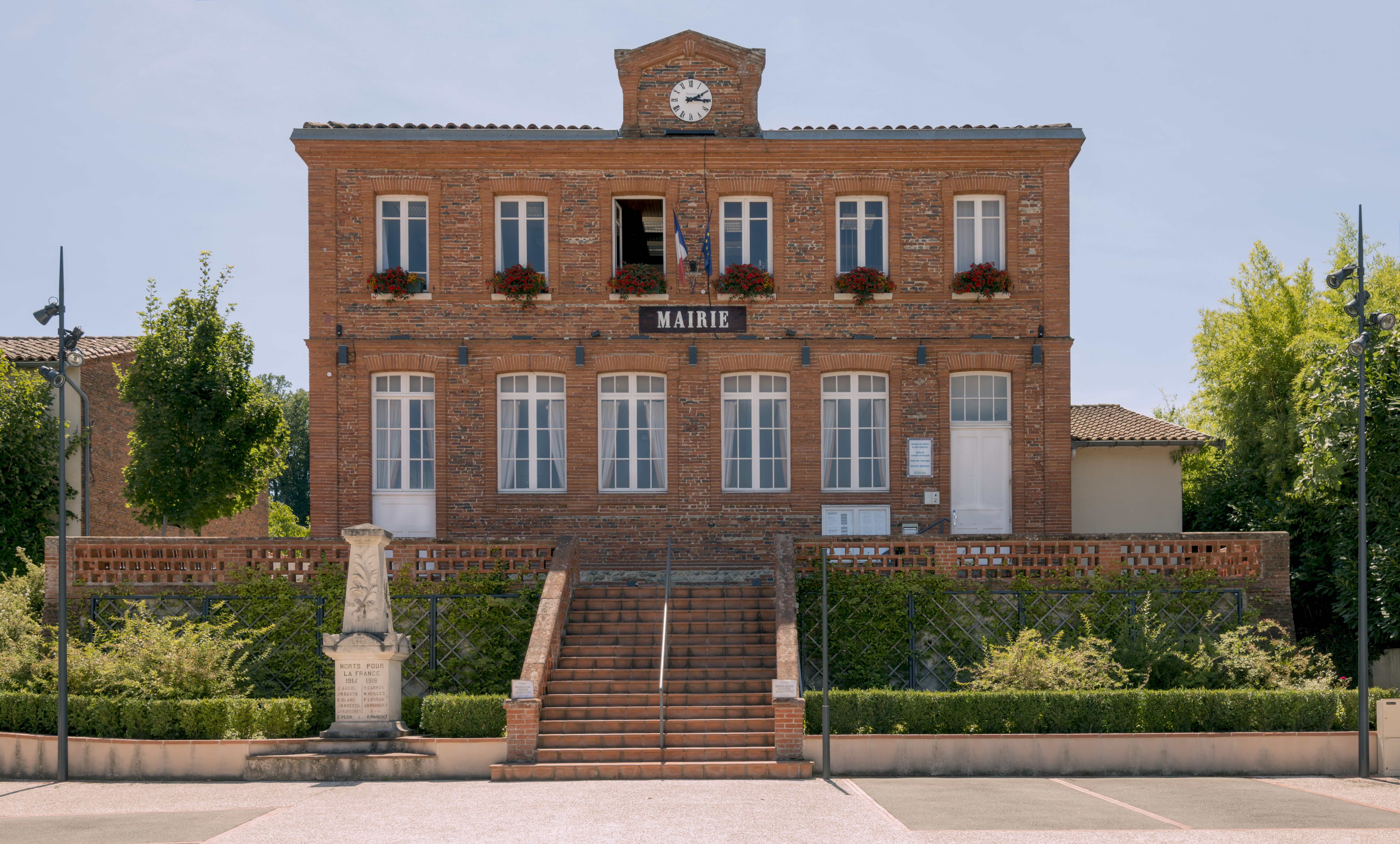 Montrabé, France. Facade of Town Hall.